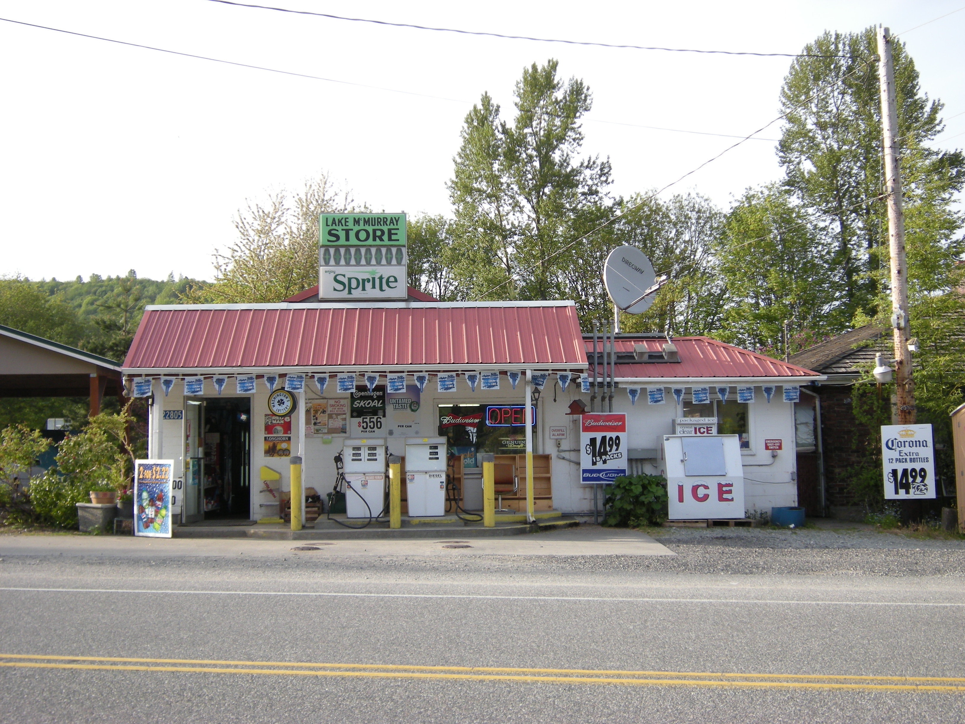 Lake McMurray Store, Lake McMurray, Washington, USA.